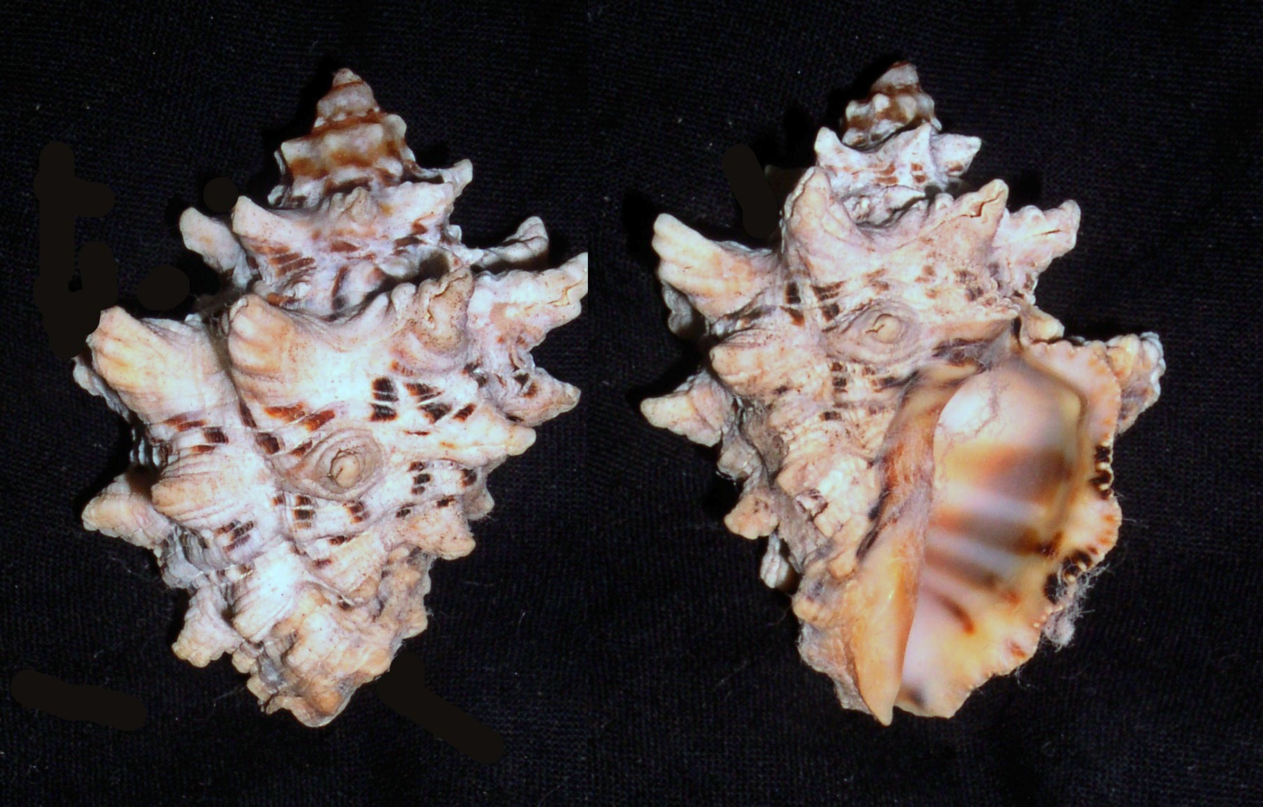 Thais sp from Mindanao, the Philippines